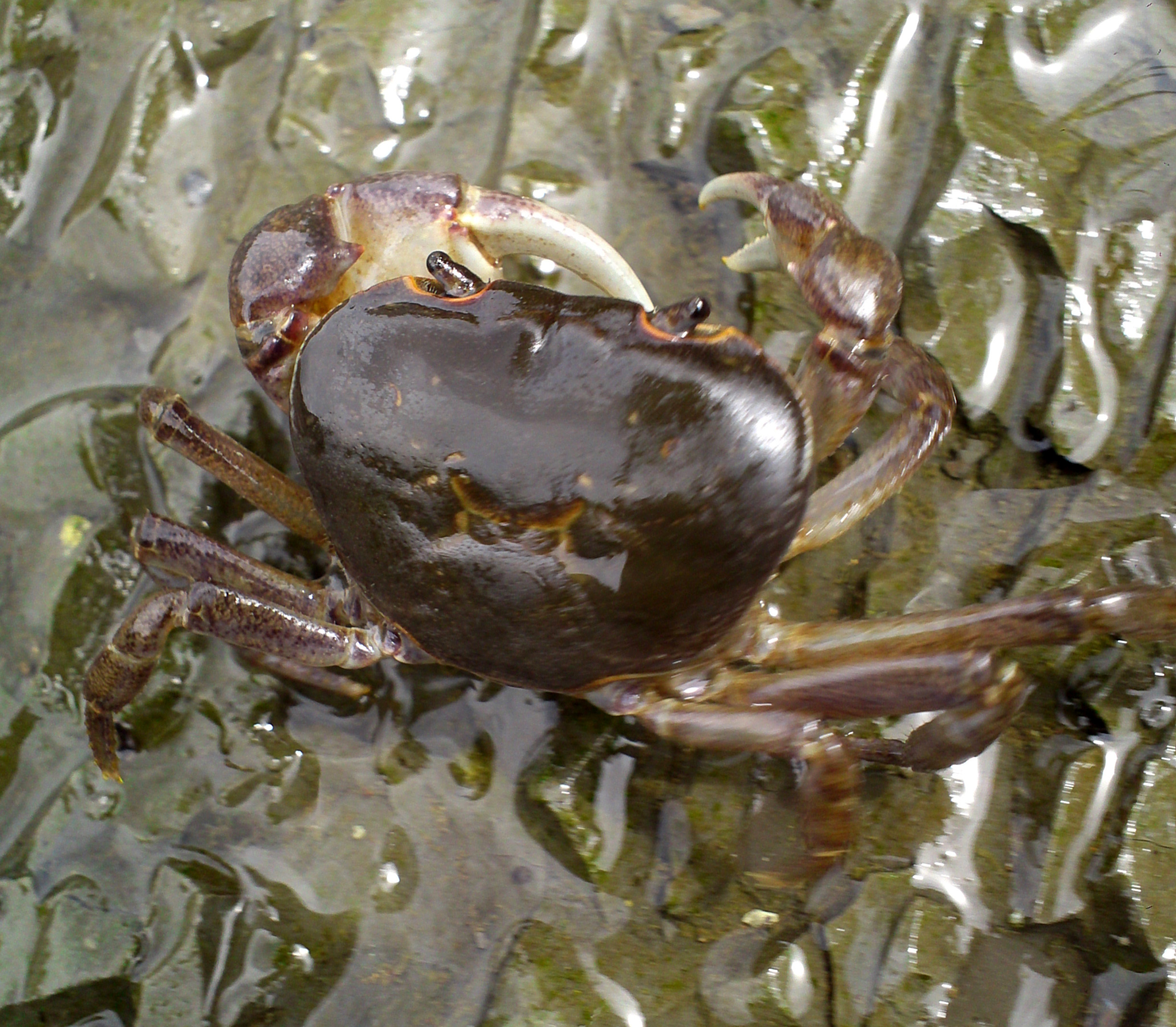 Geothelphusa dehaani A freshwater crab. (Capture place, the Nagano Kangawa River)